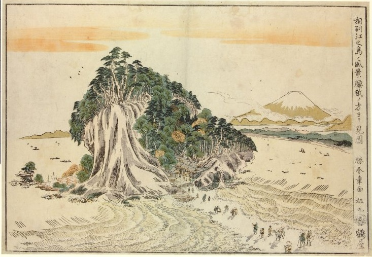 woodblock print by Katsukawa Shunshō, ’A View of Enoshima in Sagami Province, Looking from the Direction of Koshigoe’, 1784